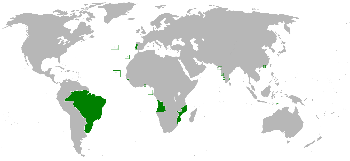 From German wikipedia with some minor color changes